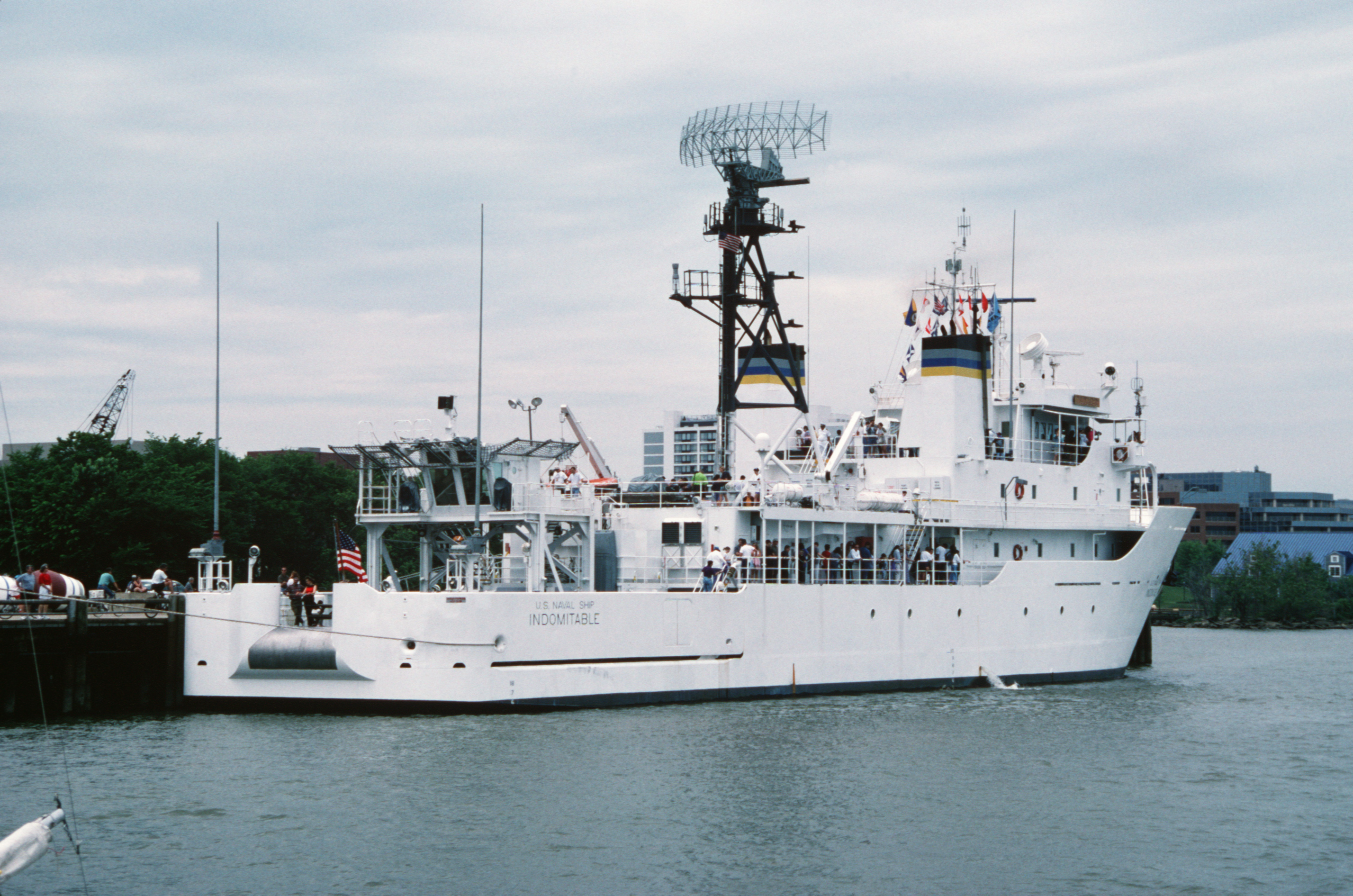 Starboard quarter view of the Military Sealift Command (MSC) surveillance ship USNS INDOMITABLE (T-AGOS 7) tied up at the Robinson Freight Terminal during a port visit to Alexandria, Virginia. Location: POTOMAC RIVER, DISTRICT OF COLUMBIA (DC) UNITED STATES OF AMERICA (USA)